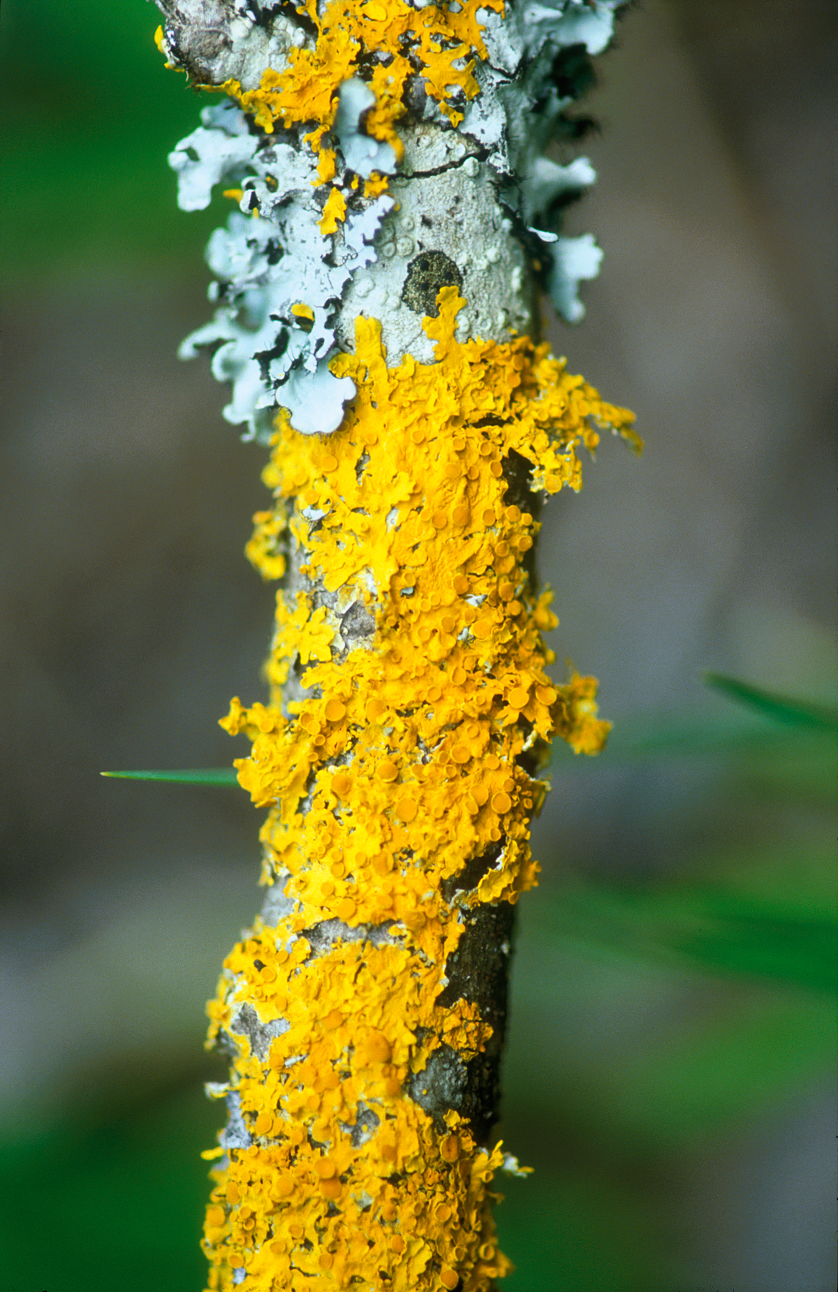 Lichen on tree in Adelaide Hills, SA. 1992.